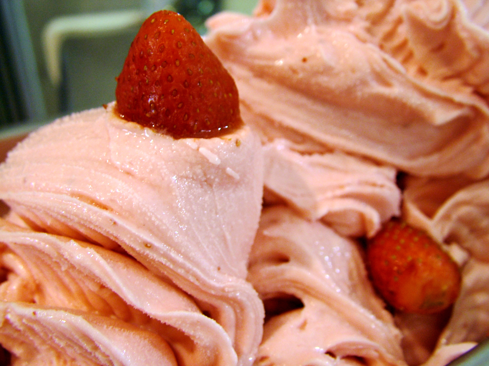 Strawberry Ice Cream with Strawberries